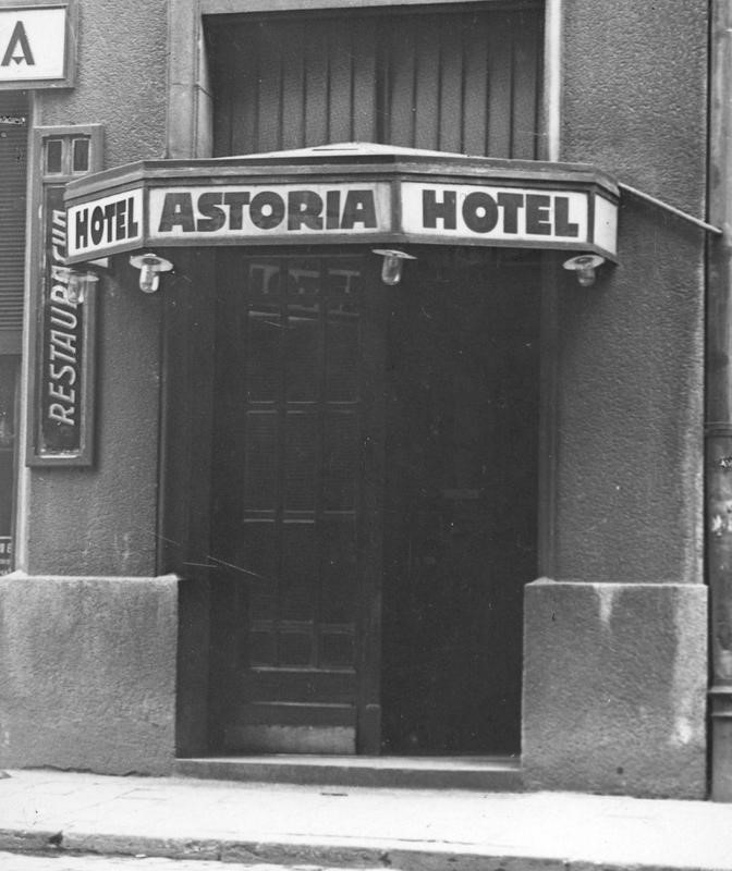 Entrance to the hotel “Astoria” in Lviv